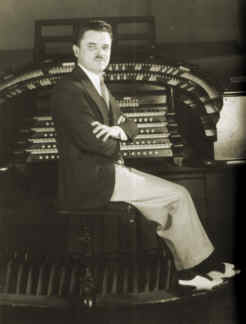 Theatre organist Jesse Crawford seated at the console of the Wurlitzer pipe organ in the broadcast studio of the Paramount Theatre, New York.